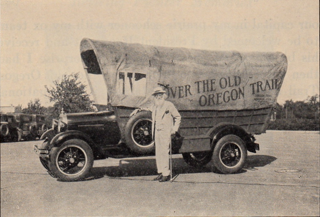 Ezra Meeker, in the last known photo of him, November 1928, shortly before his death at age 97